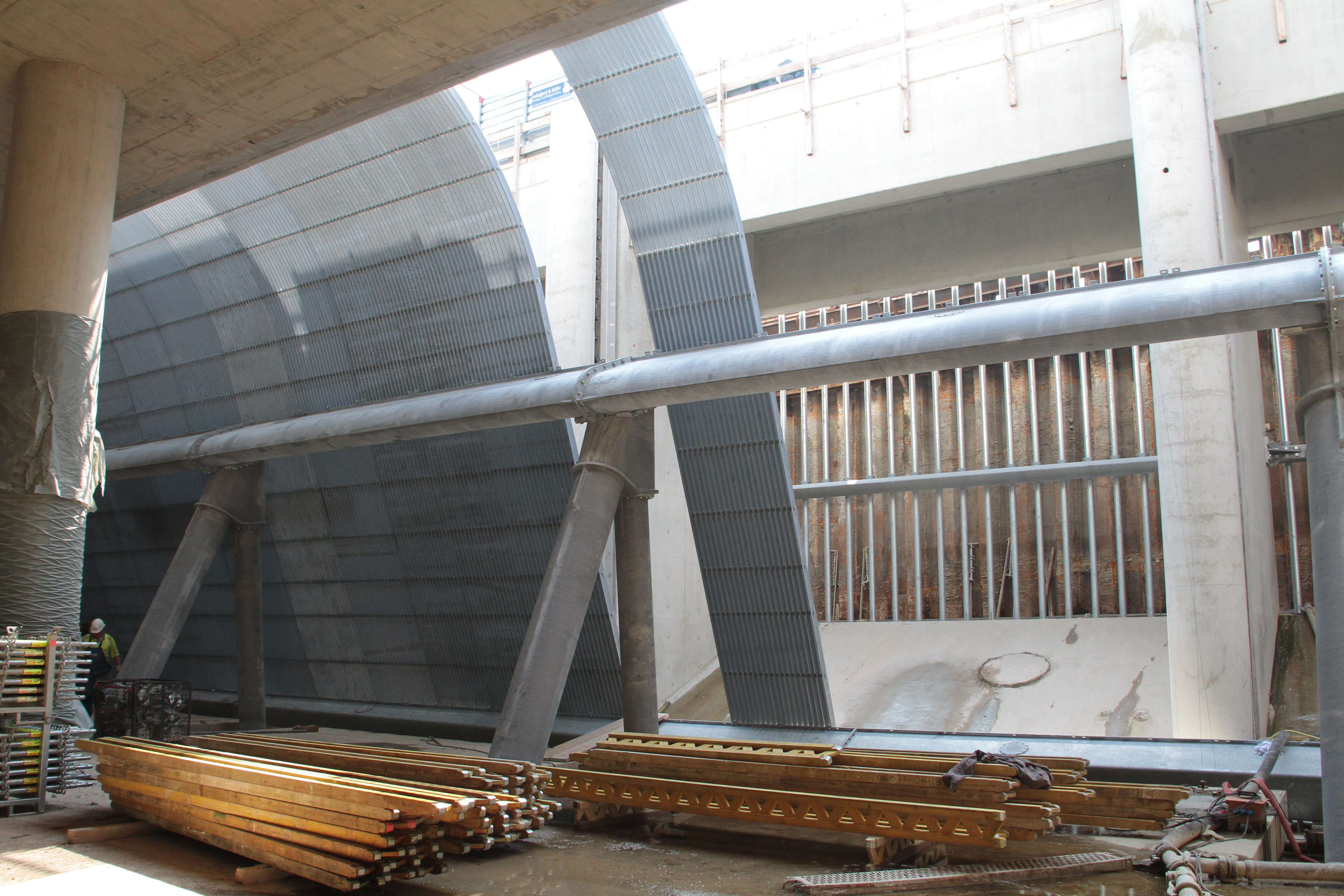 View into the inlet structure of the hydroelectric power plant on the river Weser in Bremen, Germany, with the tenuous grill in the foreground and the rough grill in the background.